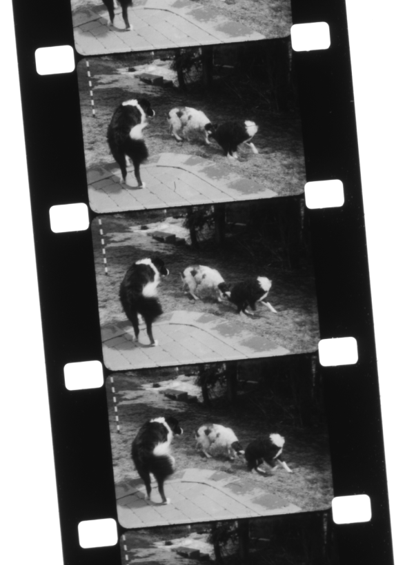 This is a scan showing a double perf black and white reversal home movie, (my dogs at play) which illustrates what a 16mm home movie in the 1930s would have looked like.